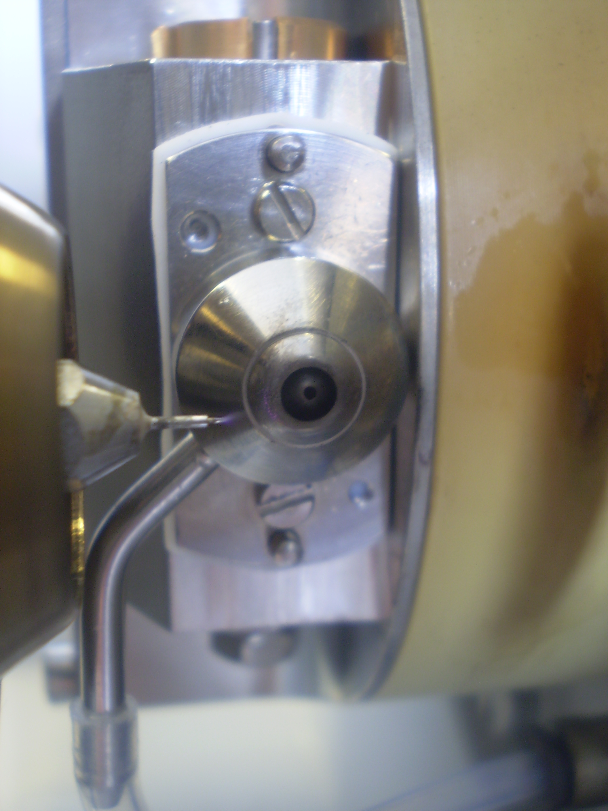 A close-up of an Electrospray device taken at the Nottingham University.